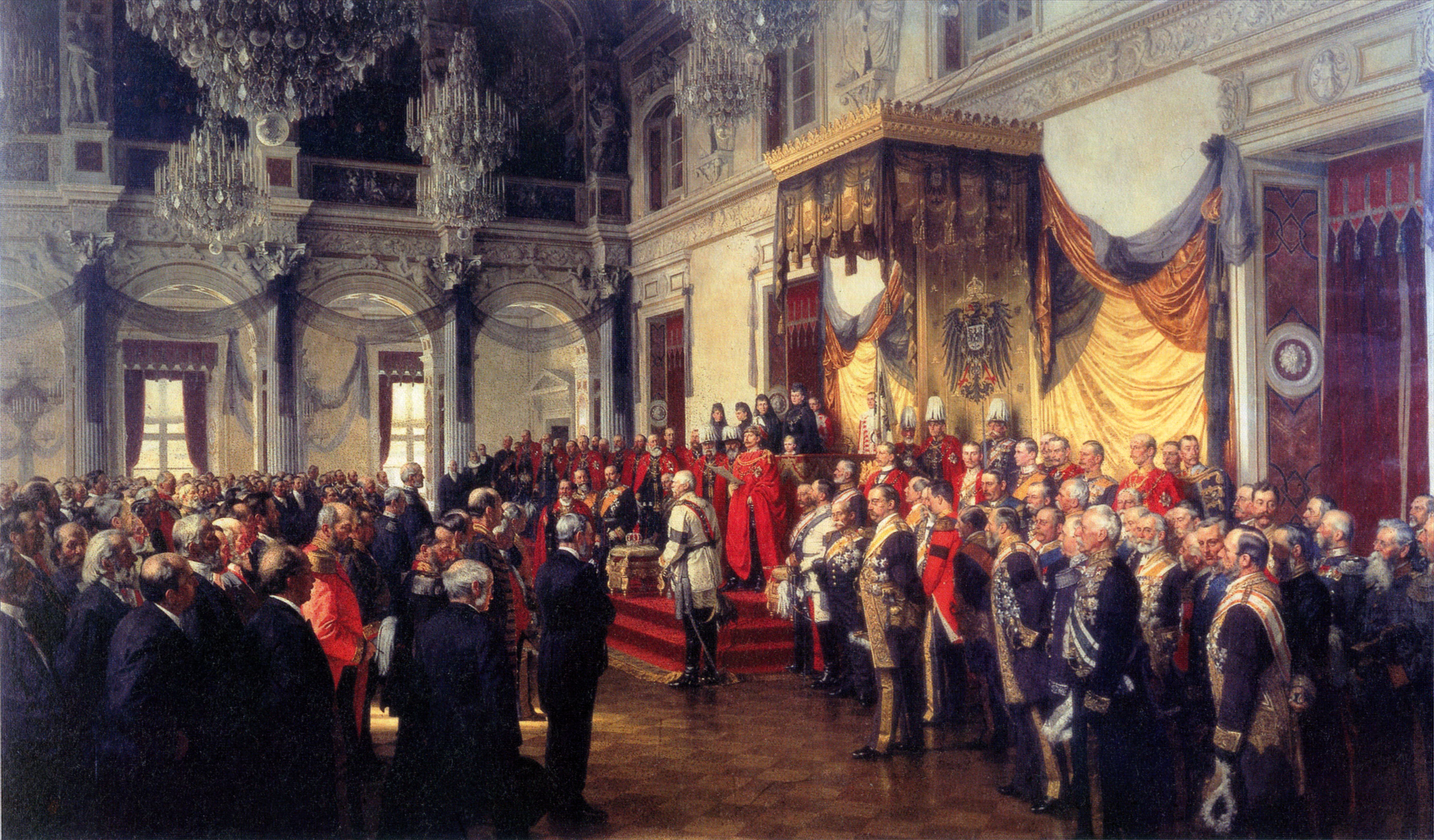 State Opening of Parliament (German Reichstag) on 25 June 1888, celebrated in the White Hall of the Berlin Palace